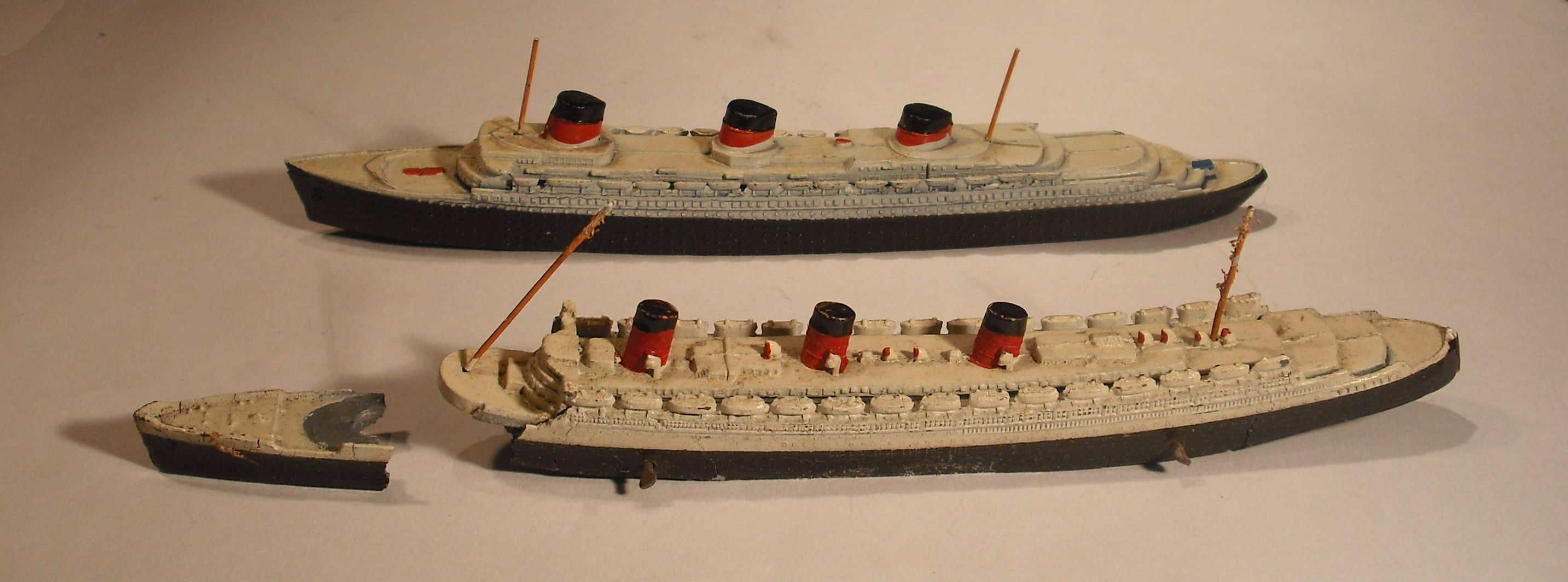 Dinky Toy models of the liner Queen Mary (foreground) and SS Normandie (background). The casting of the Queen Mary is extensively damaged by cracking, warping and the entire bow section having become detached. This is owing to zinc pest, a particular problem with Dinky Toys of this age. Both of these toys are of similar age and have been stored together in their original boxes since new. Only one is seriously affected.